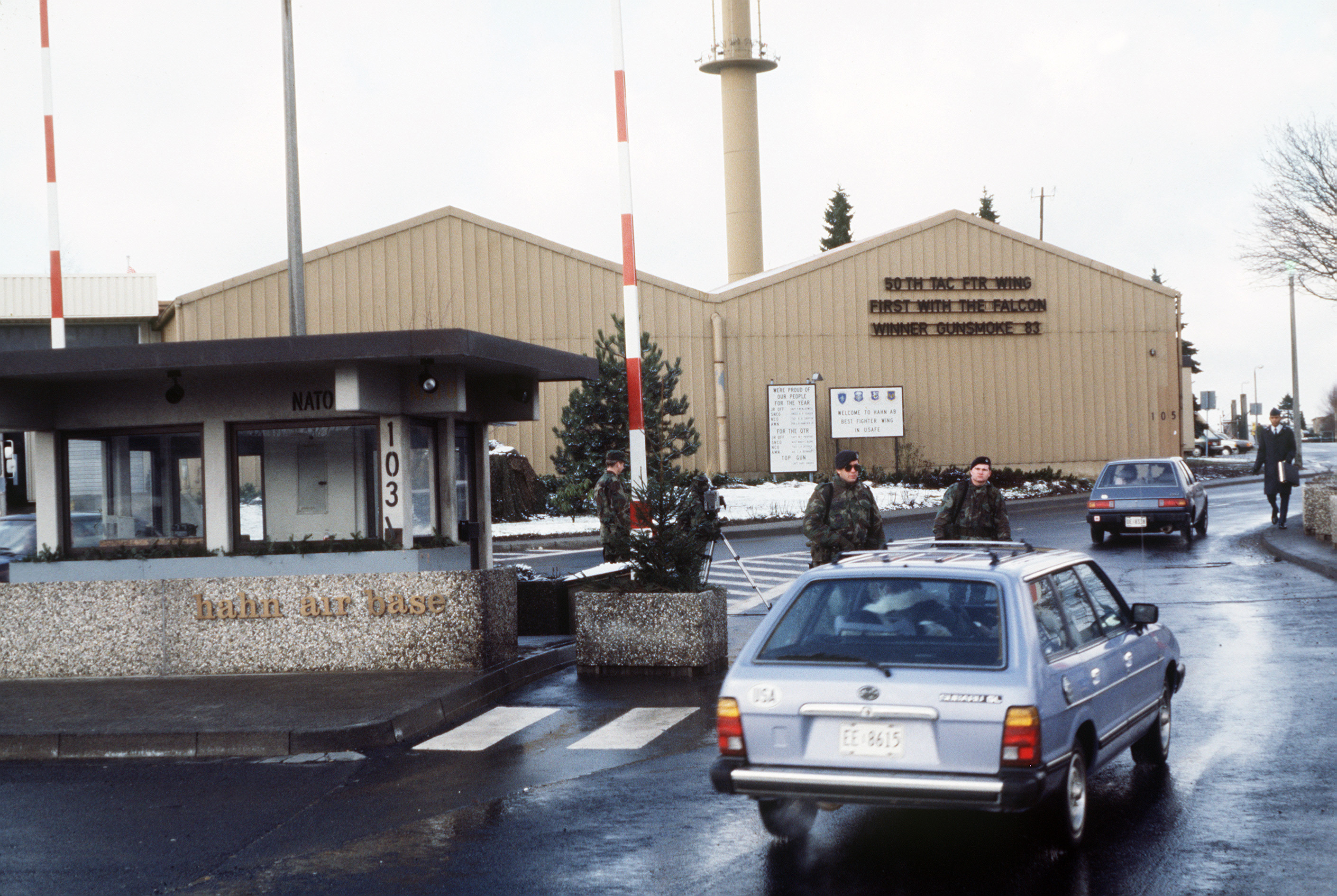 The front gate entrance to the Hahn Air Base, Hunsrueck, Germany. 50th TAC Fighter Wing, USAFE